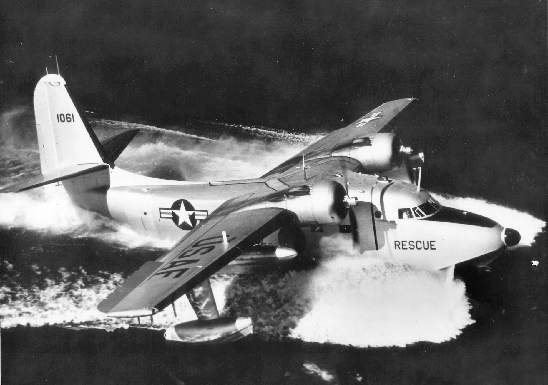 A U.S. Air Force Grumman SA-16A Albatross (after 1962 HU-16A, s/n 51-061, c/n G-139), of the 38th Air Rescue Squadron stationed in Japan, ca. 1953. This aircraft capsized in high seas on 13 January 1953. Official caption: "1950's -- The white water froths from the nose of an Grumman SA-16A Albatross as the pilot pours on the power in preparation for a take-off from a fresh water lake in northern Honshu, in Japan. The 38th is a unit of the 3rd Air Rescue Group and provides air and sea rescue for military and civilian air traffic over norther Honshu, Hokkaido and the adjacent Pacific Ocean areas. March 1953 (U.S. Air Force photo)"